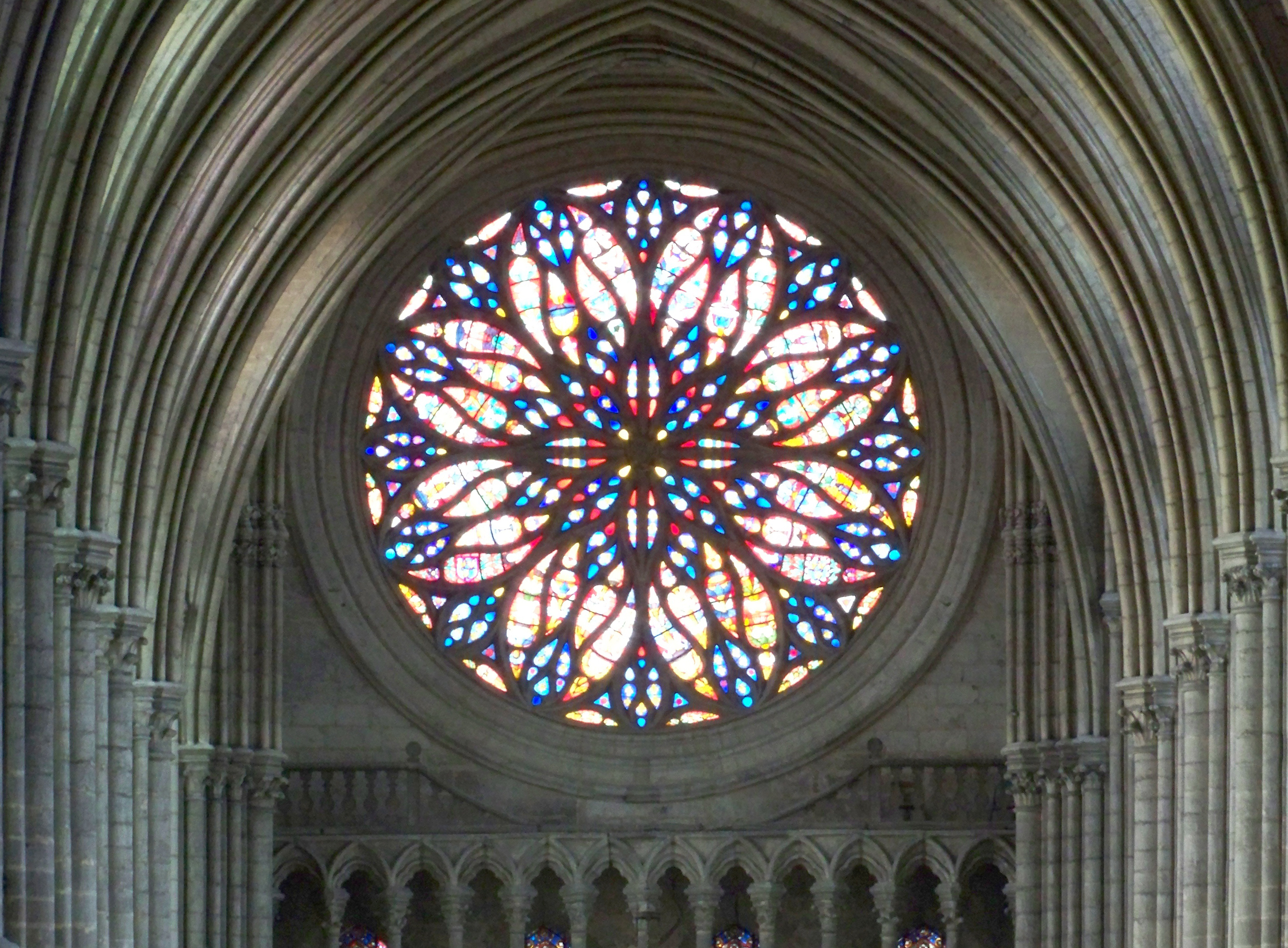 Cathedral of Notre-Dame of Amiens, western Rose Window as seen from the triforium